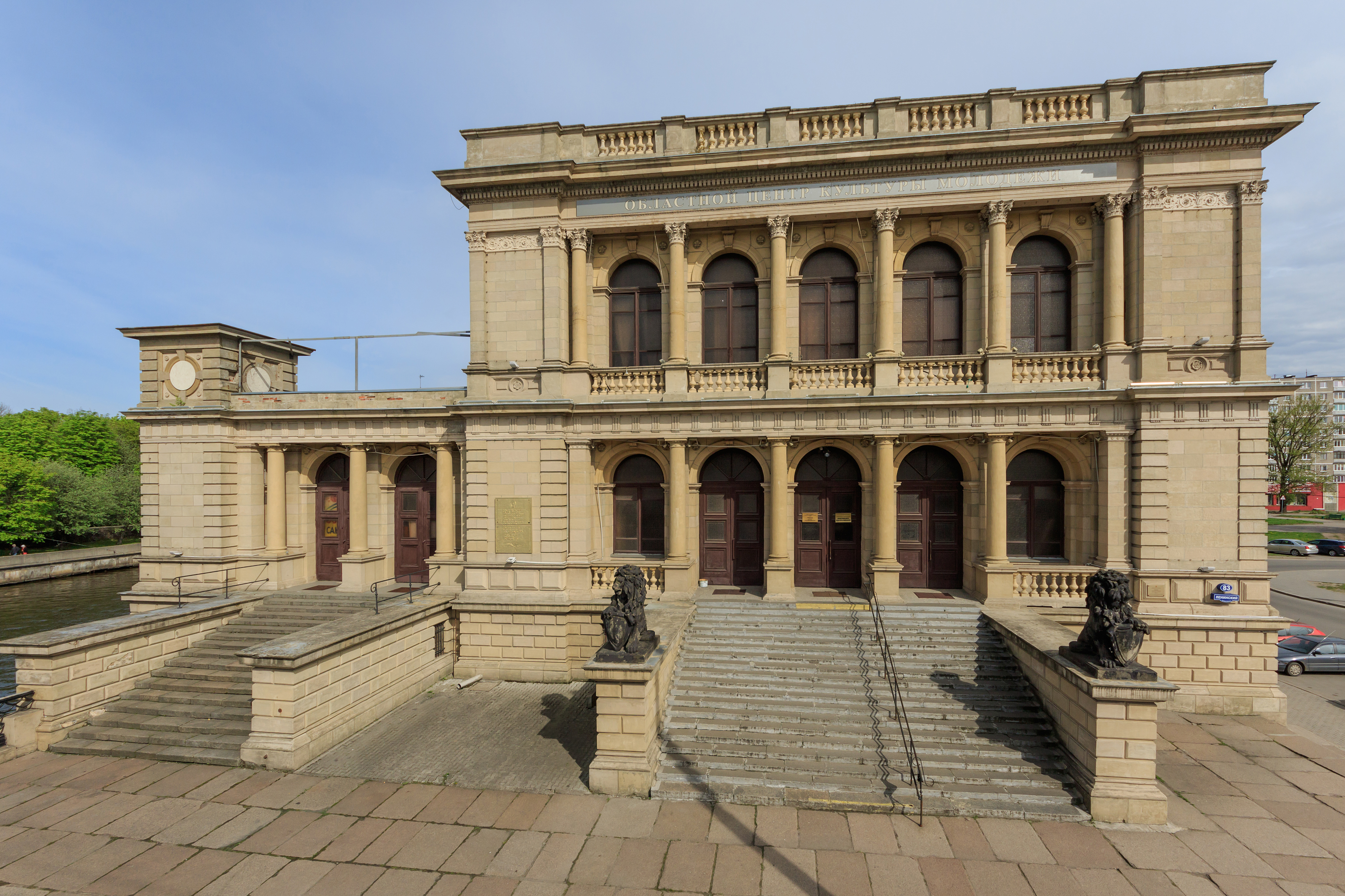 Stock Exchange in Kaliningrad formerly Königsberg, Kaliningrad Oblast (Russia)